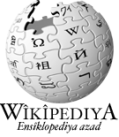 Logo of the Kurdish Wikipedia. Kurdî: Logoya Wîkîpediyaya kurdî.